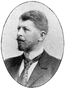 Image scanned from the book "Svenskt Porträttgalleri XX - Arkitekter, Bildhuggare, Målare m.fl. " ("Swedish Portrait Gallery XX - Architects, Sculptors, Painters, ") published 1901